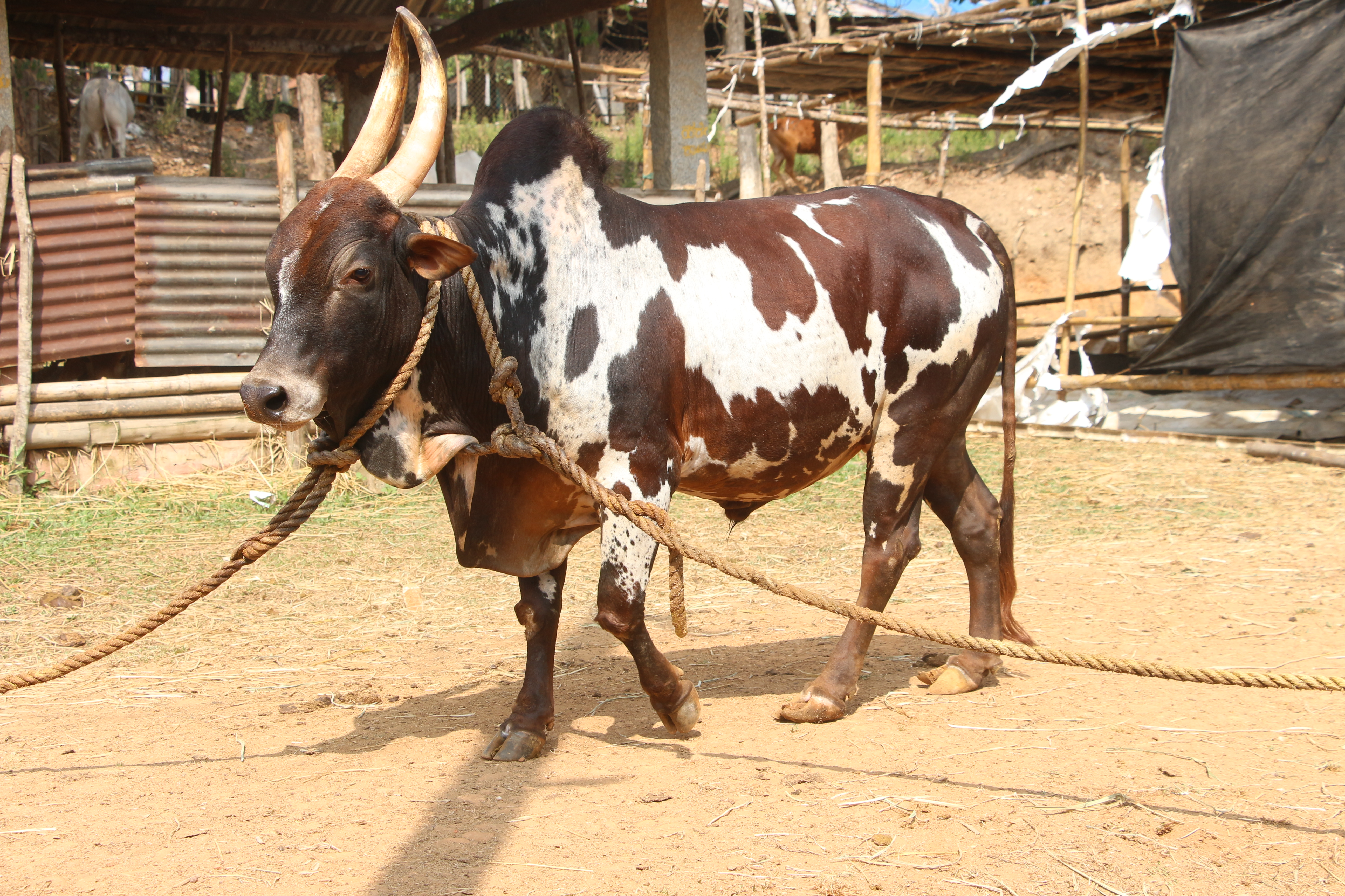 Indian cow breed Baragur ಕನ್ನಡ: ಭಾರತೀಯ ಗೋತಳಿ ಬರಗೂರು